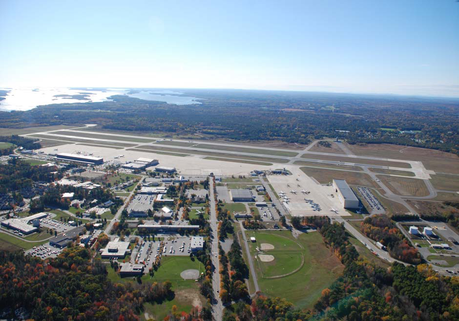 Aerial view of the U.S. Naval Air Station Brunswick, Maine (USA), on 20 October 2008.